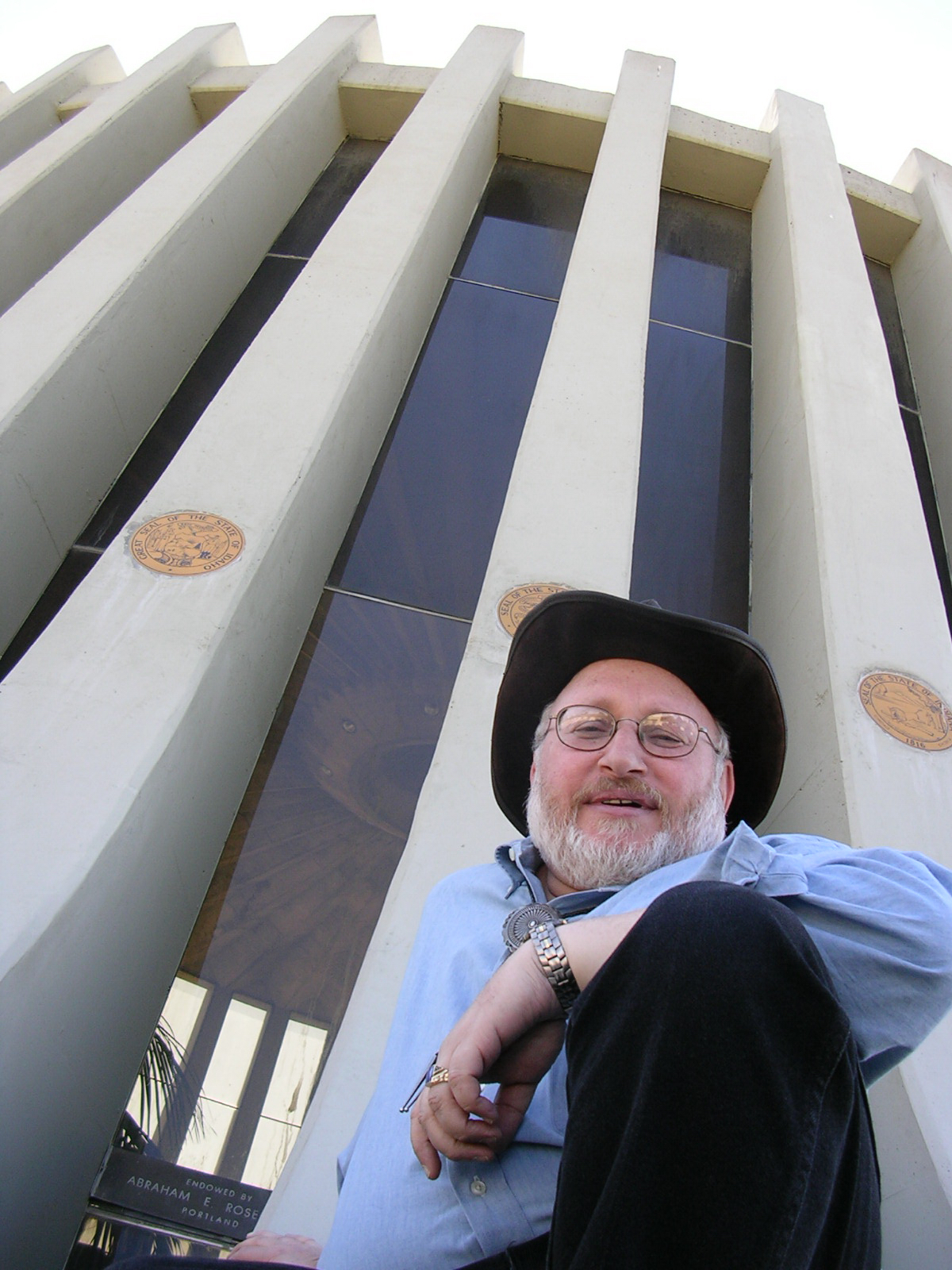 photograph of Seymour Rossel